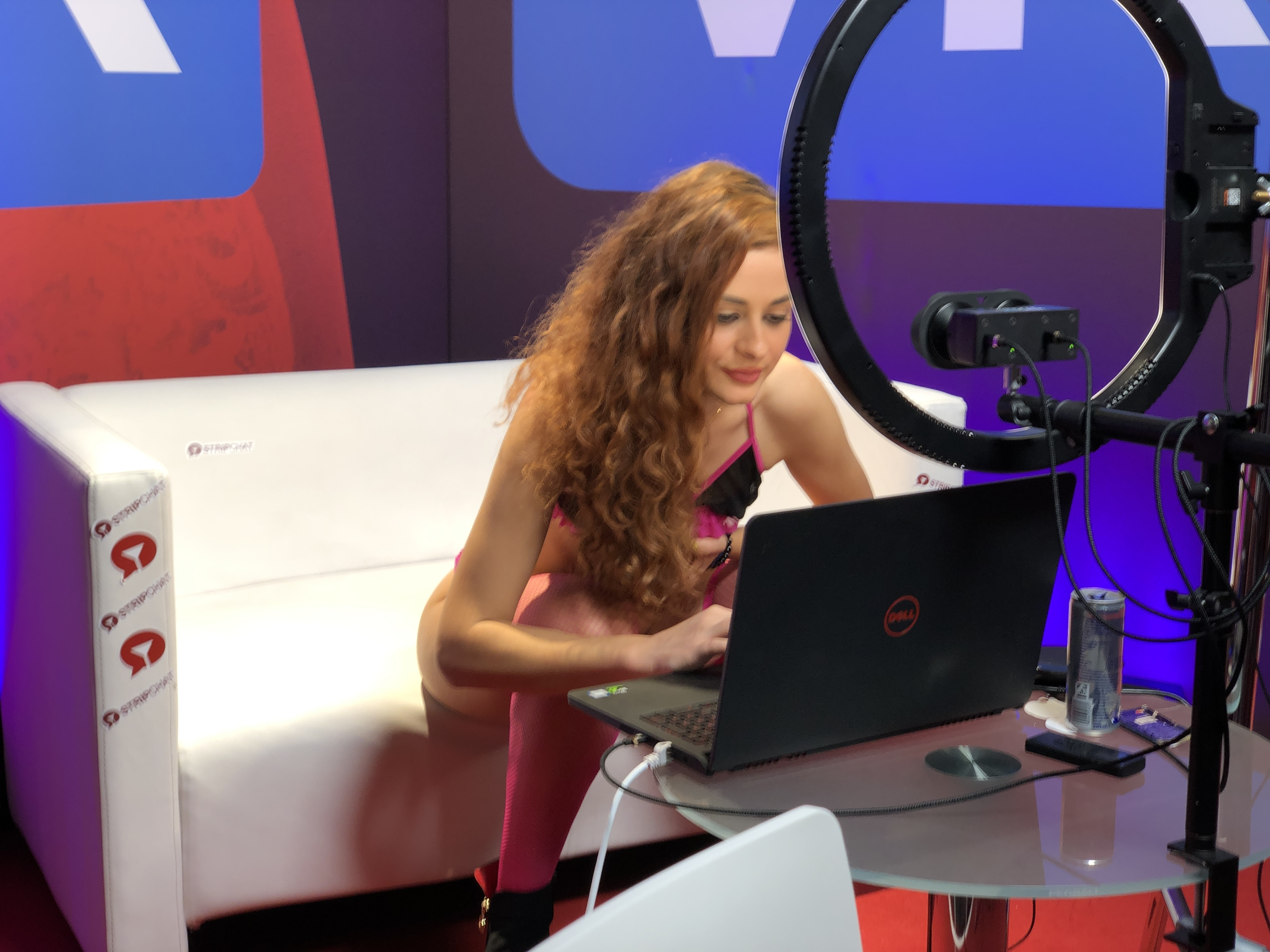 Venus Berlin 2019